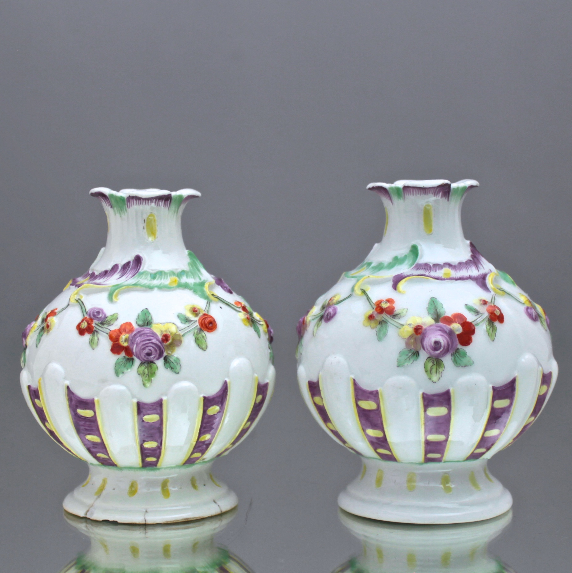 Nymphenburg: Pair of small table vases with rich relief bas decoration, decorated in bold colours, probably by J. Häringer, ca 1760